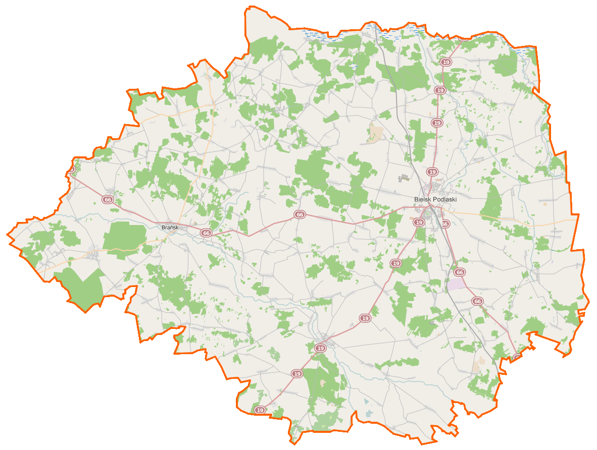 Map of Powiat bielski, Poland This map of Powiat bielski (województwo podlaskie) was created from OpenStreetMap project data, collected by the community. This map may be incomplete, and may contain errors. Don't rely solely on it for navigation.